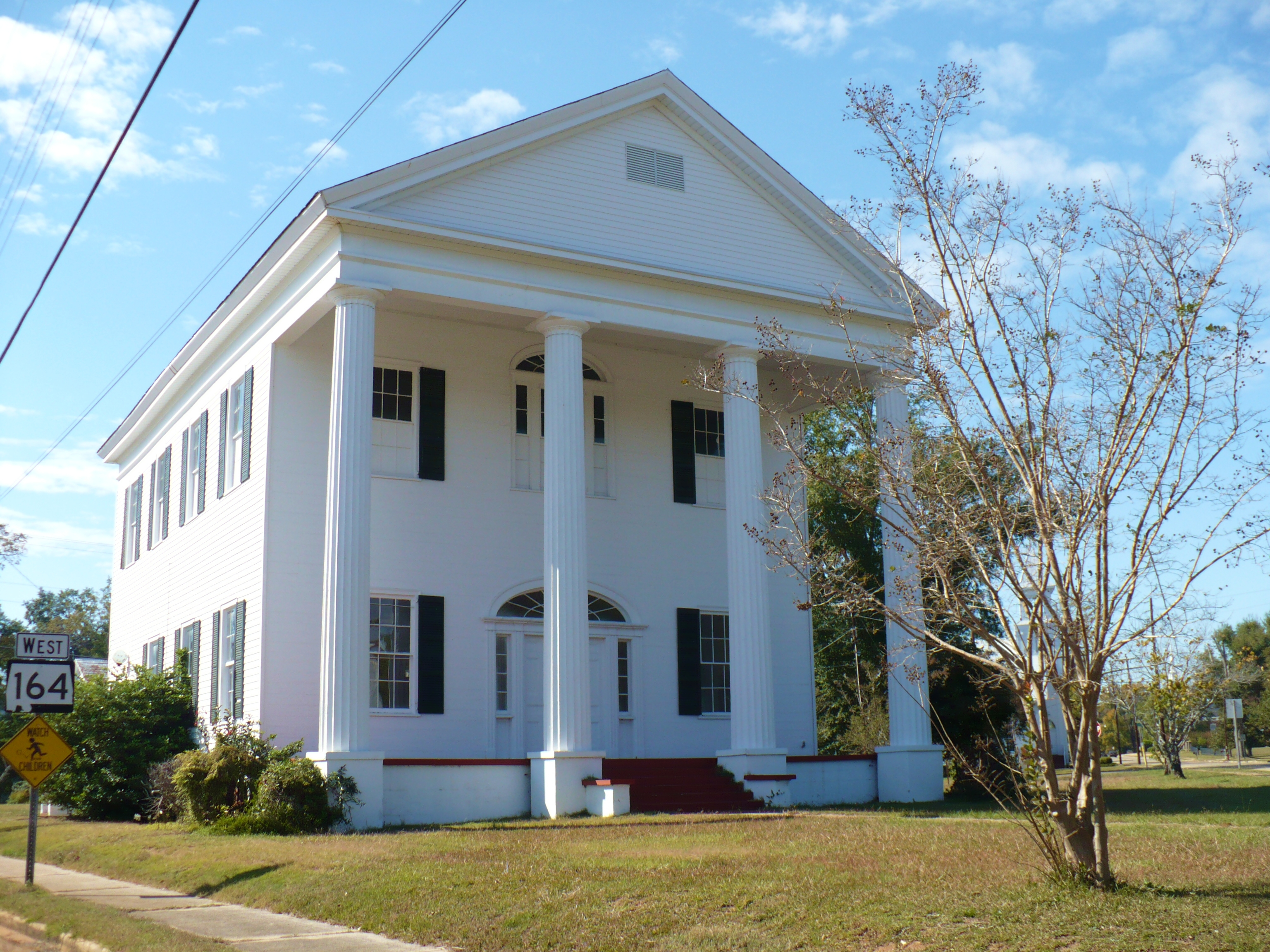 The Dale Masonic Lodge at the corner of Clifton and Broad Streets in Camden, Alabama. Built in 1847.